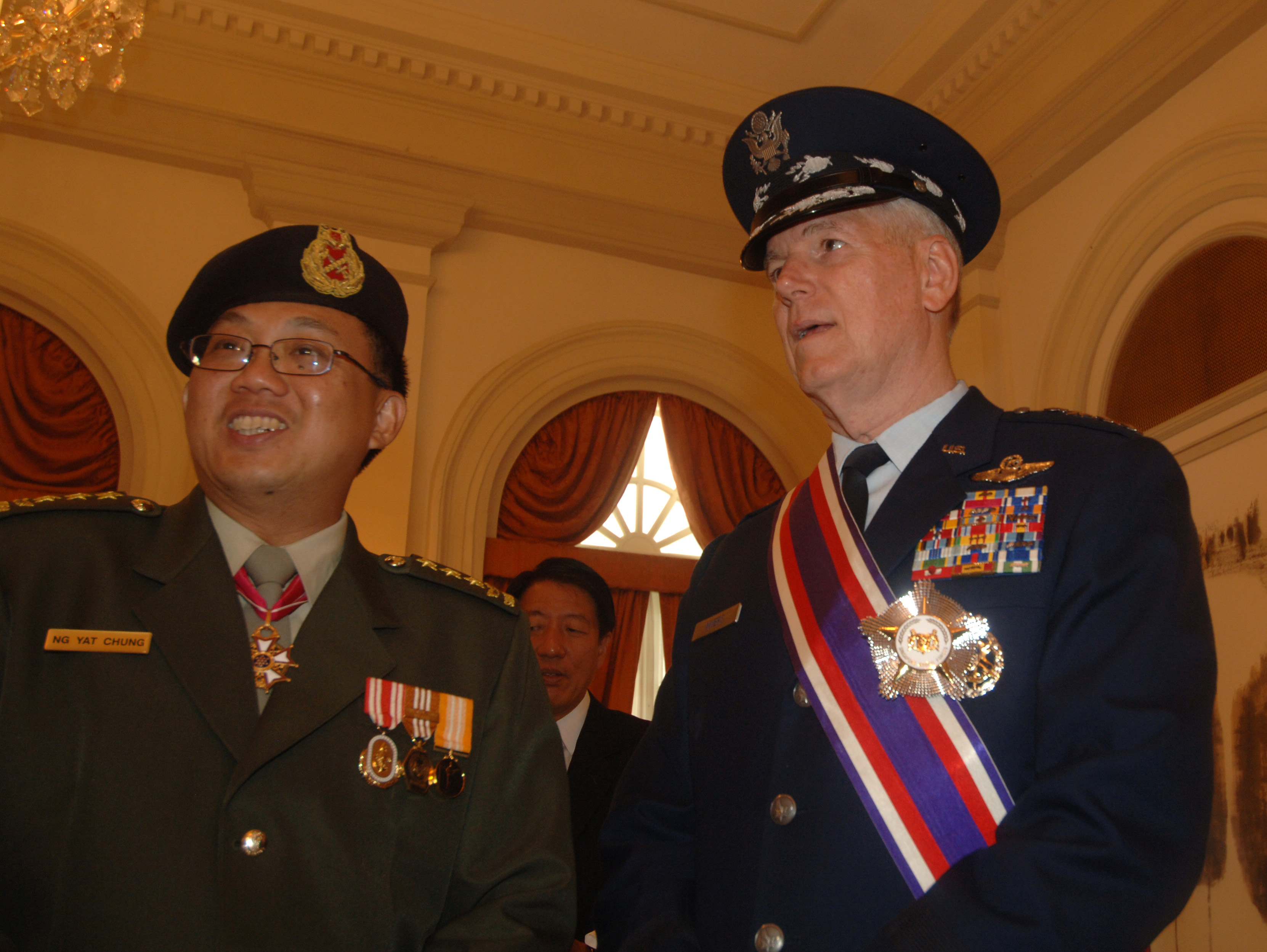 Chairman of the Joint Chiefs of Staff Gen. Richard B. Myers, United States Air Force, talks with the Chief of Defence Force of Singapore Lt. Gen. Ng Yat Chung at the Istana in Singapore on 3 June 2005. Myers was awarded Singapore's Darjah Utama Bakti Cemerlang (Distinguished Service Order).